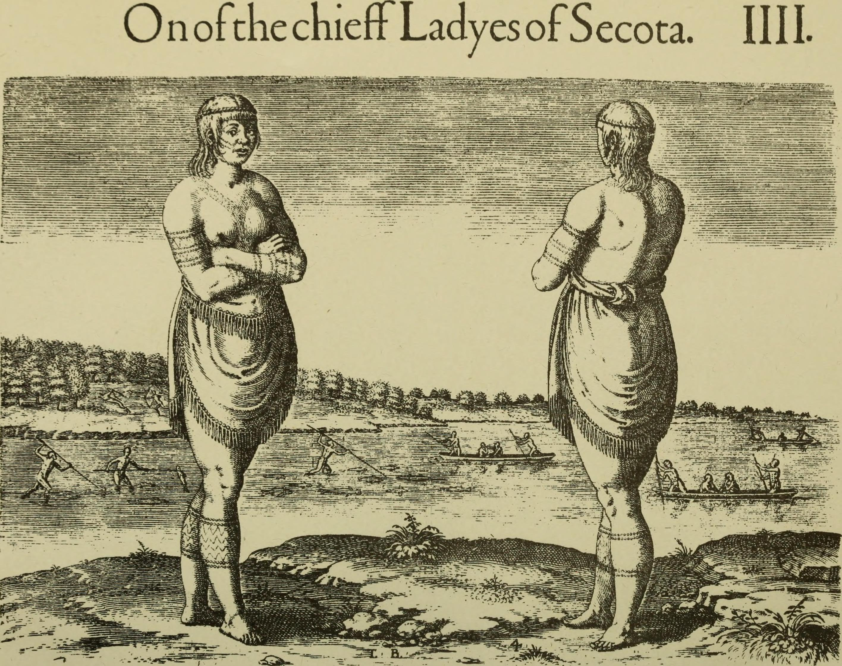 Title: The Spanish letter of Columbus to Luis de Sant'Angel : dated 15 February, 1493, reprinted in reduced facsimile, and trans. from the unique copy of the original edition (printed by Johann Rosenbach at Barcelona early in April 1493) Year: 1893 (1890s) Authors: Columbus, Christopher Columbus, Christopher Harriot, Thomas, 1560-1621 Vespucci, Amerigo, 1451-1512 Subjects: Publisher: London : Quaritch Text Appearing Before Image: ' Text Appearing After Image: - un. One of the chieff Ladyes of Secota. THE woemen of Secotam are of Reasonable good proportion.In their goinge they carrye their hands danglinge downe,and air dadil in a deer skinne verye excelletlye wel dressed,hanginge downe fro their nauell vnto the mydds of their thighes,which also couereth their hynder parts. The reste of their bodiesare all bare. The forr parte of their haire is cutt shorte, the restis not ouer Longe, thinne, and softe, and falling downe abouttheir shoulders : They weare a Wreath about their heads. Theirforeheads, cheeks, chynne, armes and leggs are pownced. Abouttheir necks they wear a chaine, ether pricked or paynted. Theyhaue small eyes, plaine and flatt noses, narrow foreheads, andbroade mowths. For the most parte they hange at their eareschaynes of longe Pearles, and of some smootht bones. Yet theirnayles are not longe, as the woemen of Florida. They are alsodehghted with walkinge in to the fields, and beside the riuers, tosee the huntinge of deers and c